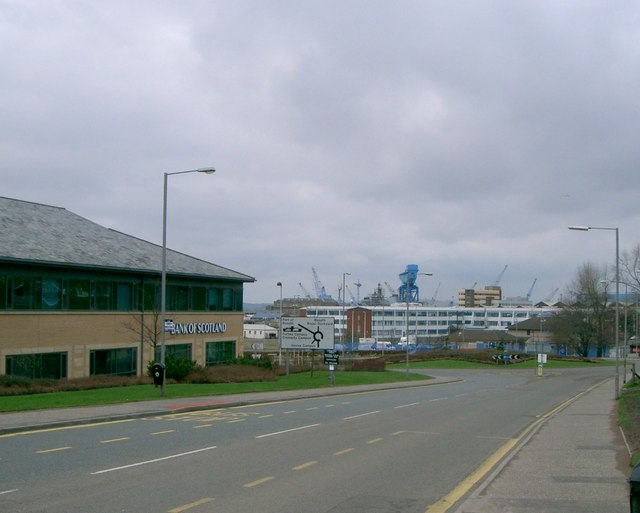 Rosyth Dockyard. A view from Castle Road.